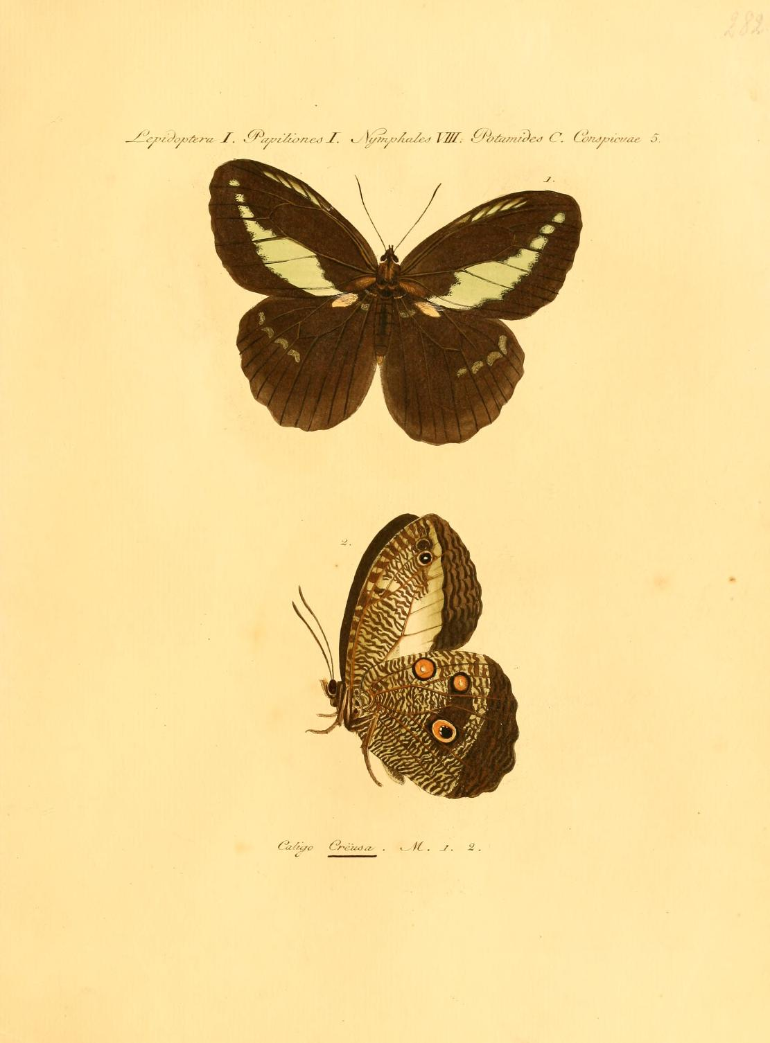 Jacob Hübner Sammlung exotischer Schmetterlinge Vol. 2 ([1819] - [1827] Plate 68 Caligo creusa Hübner, [1821] synonym for Dasyophthalma creusa (Hübner, [1821])